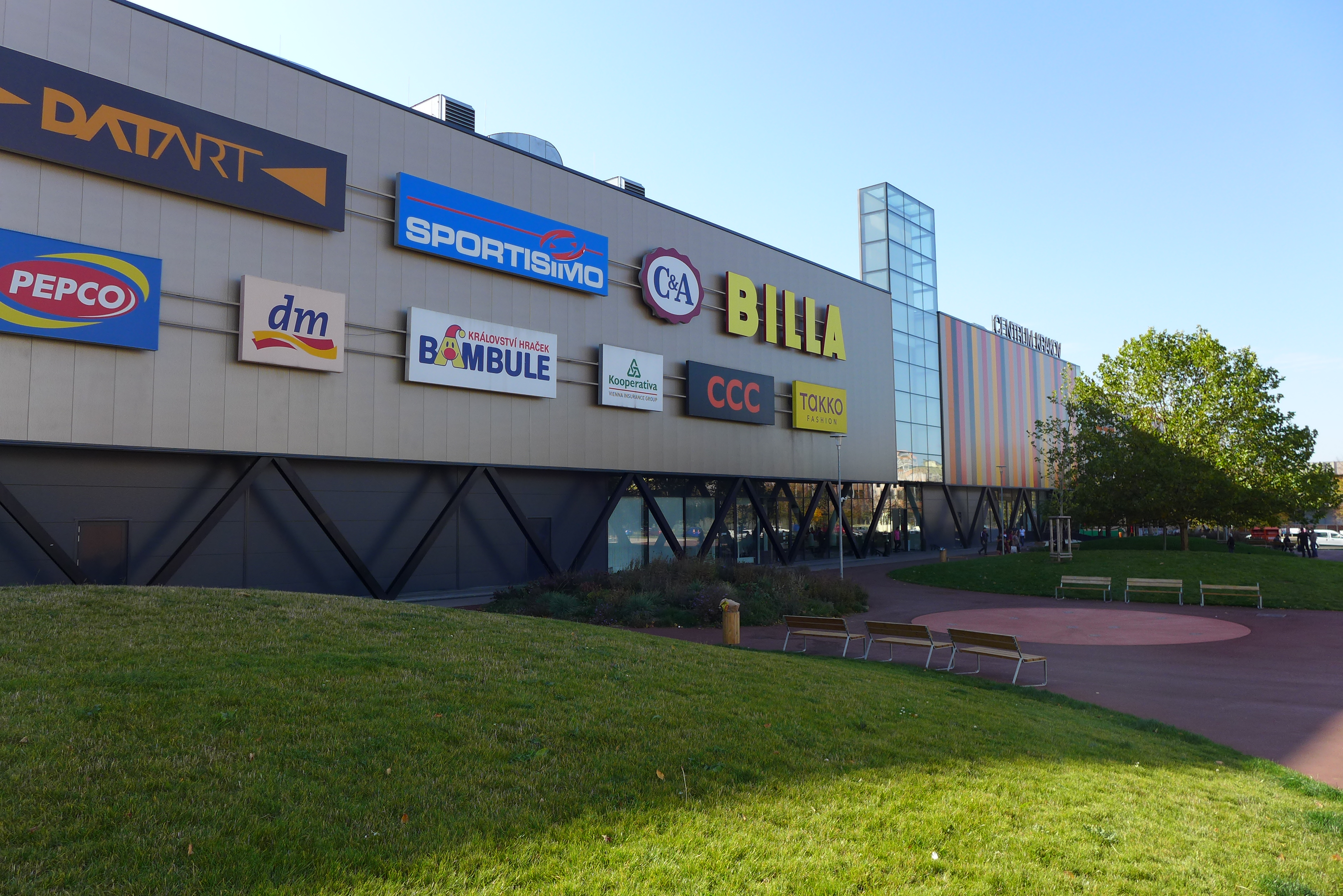 A view of the Krakov shopping centre.